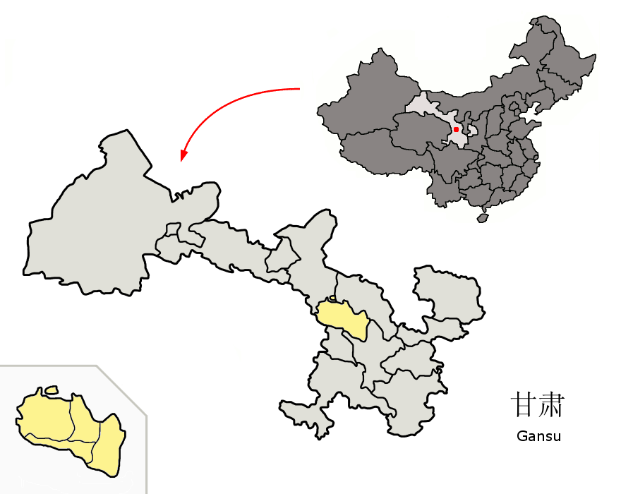 Location of Lanzhou Prefecture (yellow) within Gansu province of China Map drawn in september 2007 using various sources, mainly : Gansu province administrative regions GIS data: 1:1M, County level, 1990 Gansu Counties map from